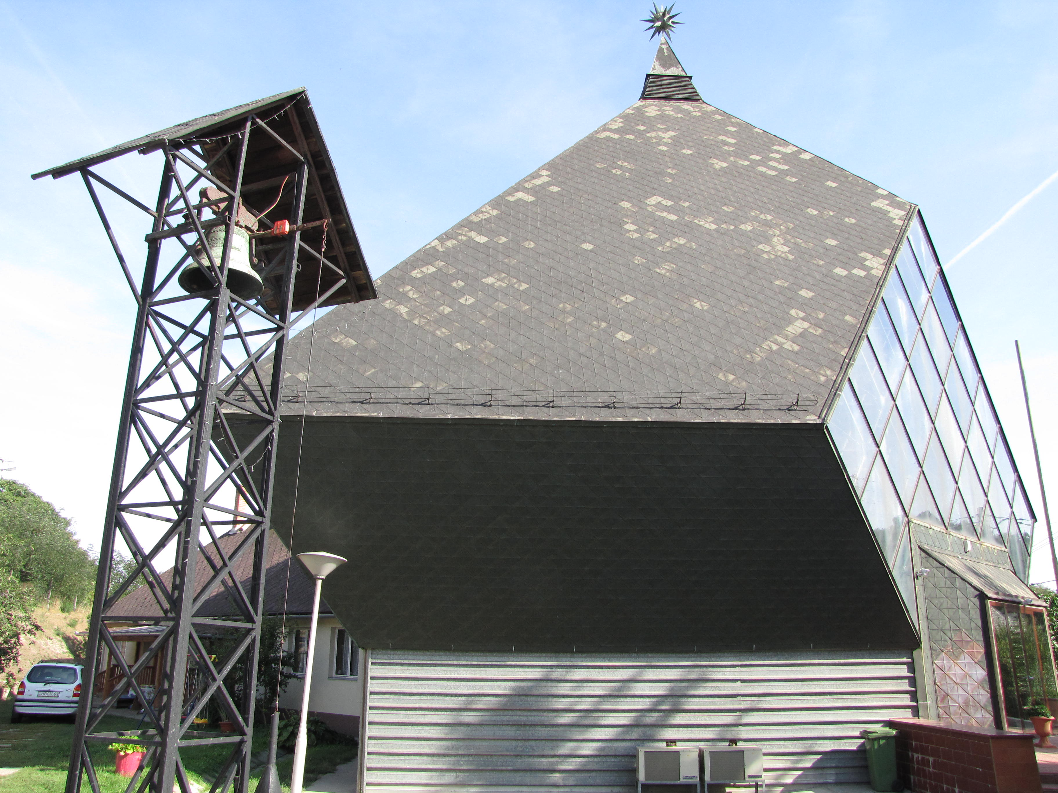 Calvinist church in Dunaújváros, Hungary.